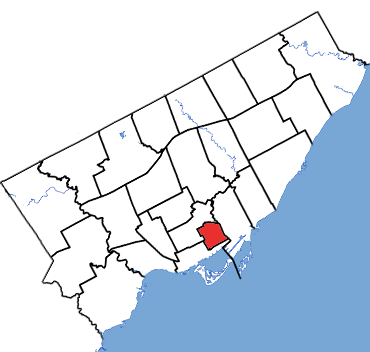 Toronto Centre in relation to the other Toronto ridings (2015 boundaries)